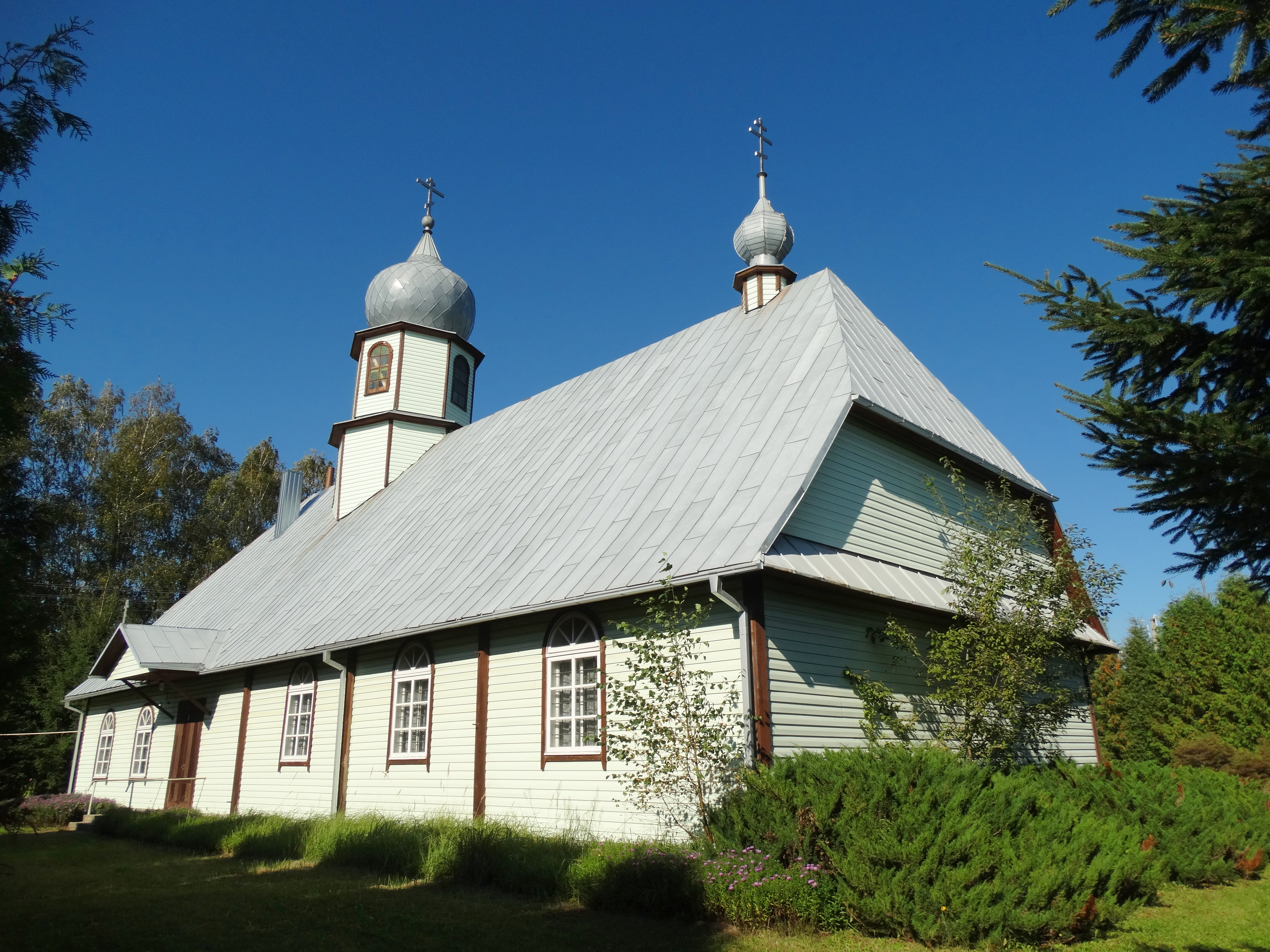 Russian Old Believers' church, Utena, Lithuania